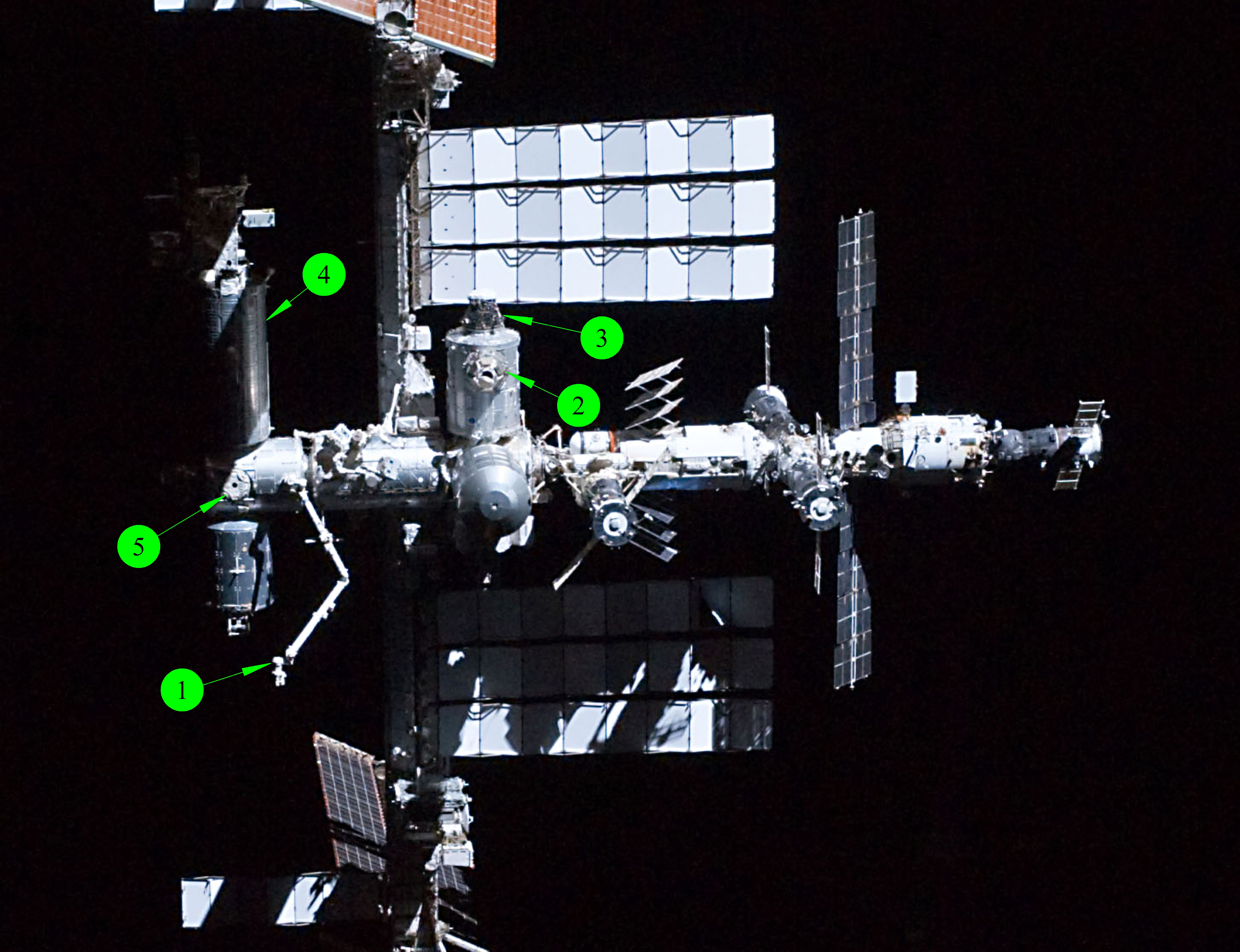 Cropped and lightly unsharped from the original photo, which is pointed to by the URL. Annotated in support of describing development of the CBM.